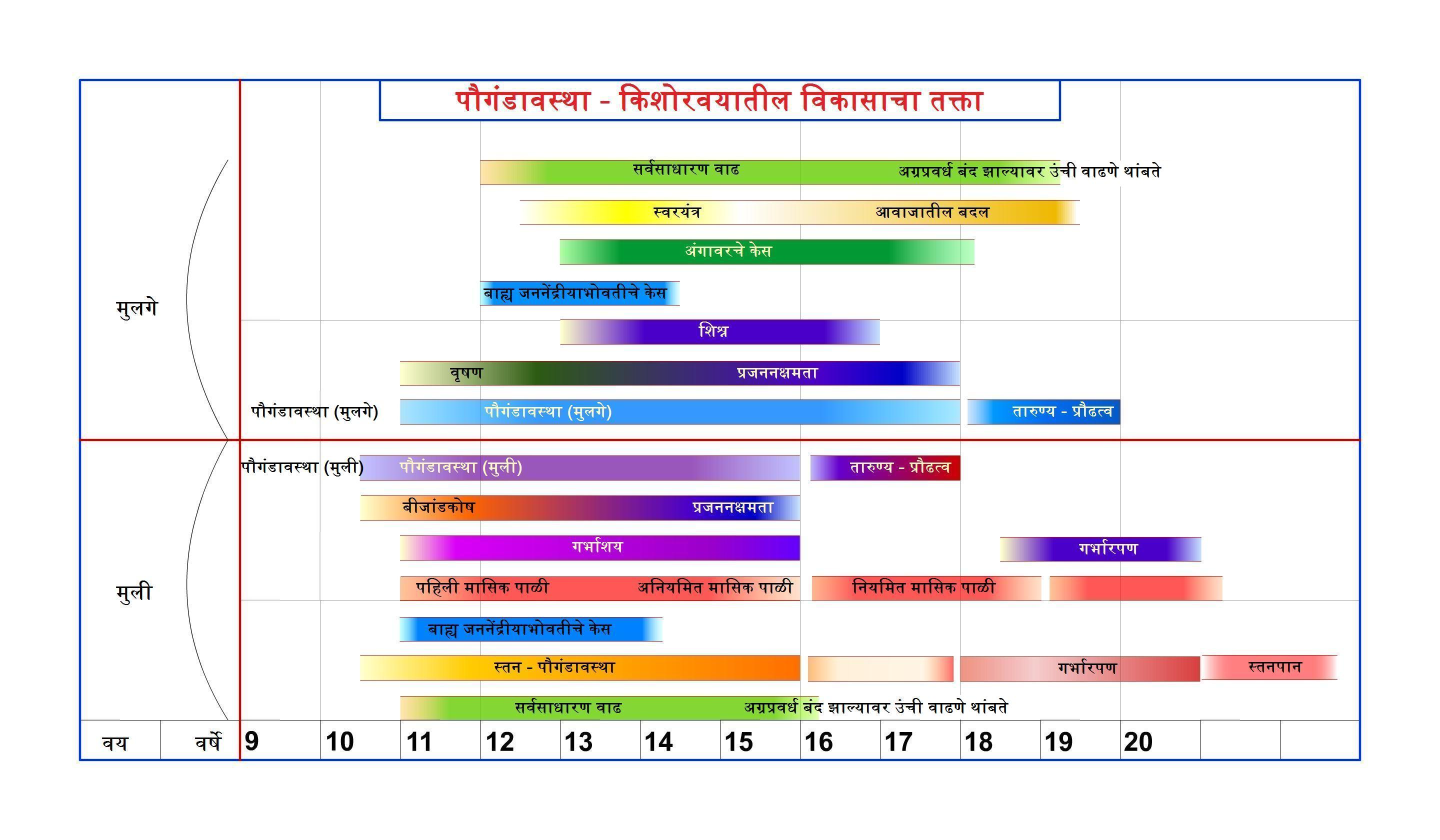 This is a ‘Simplified Pubertal Human Development Chart’, from start of Puberty to Young Adulthood, in Marathi. The main purpose of this chart is to understand 1) Sexual Growth and development of Secondary Sexual Characters, 2) Average durations of different stages and 3) Differences in Male and Female Sexual development. The stages are according to accepted definitions. But both the ends are faded and open and there can be considerable overlapping.